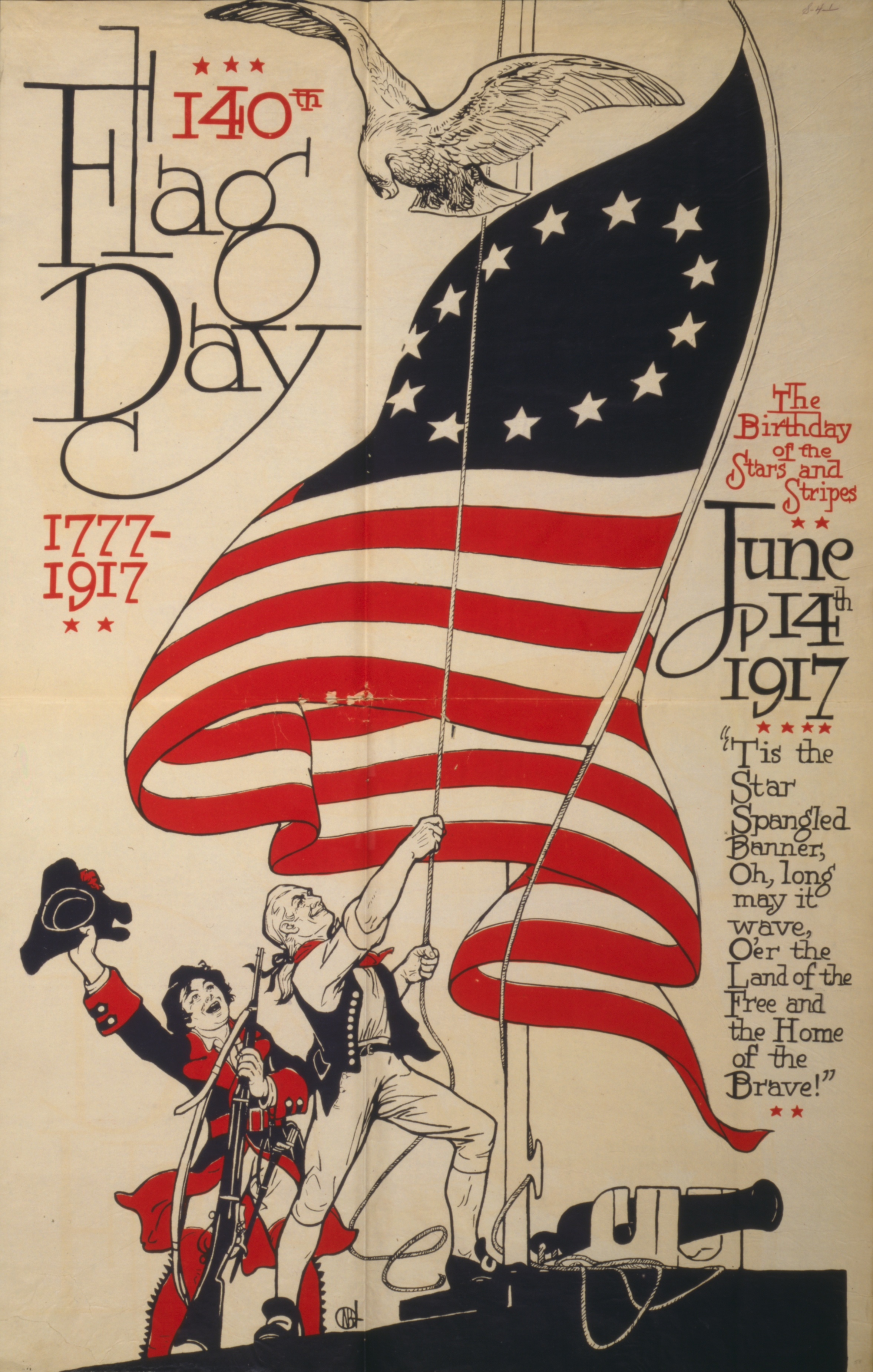 140th U.S. Flag Day poster. 1777-1917. The birthday of the stars and stripes, June 14th, 1917. 'Tis the Star Spangled Banner, oh, long may it wave, o'er the land of the free and the home of the brave!" Library of Congress description: "Poster showing a man raising the American flag, with a minuteman cheering and an eagle flying above."